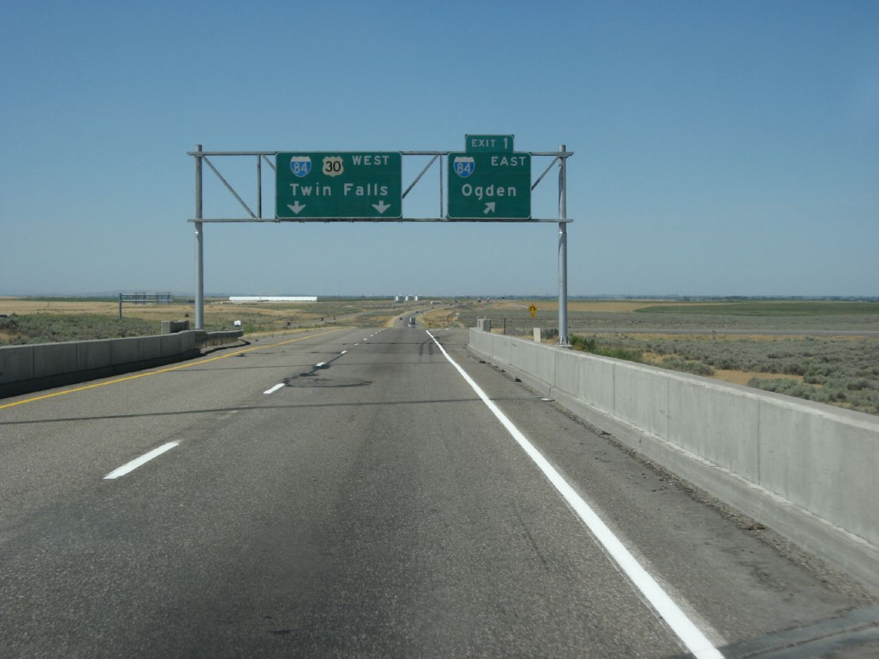 Junction of Interstate 86 and Interstate 84, Idaho